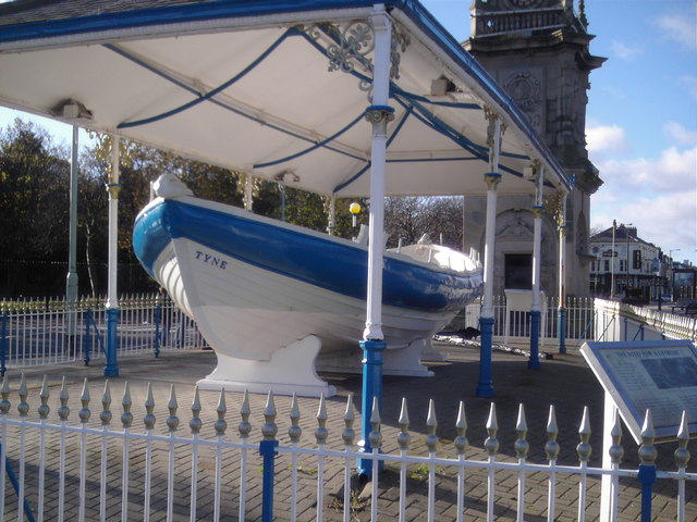 Tyne Lifeboat. Second ever lifeboat in existence.